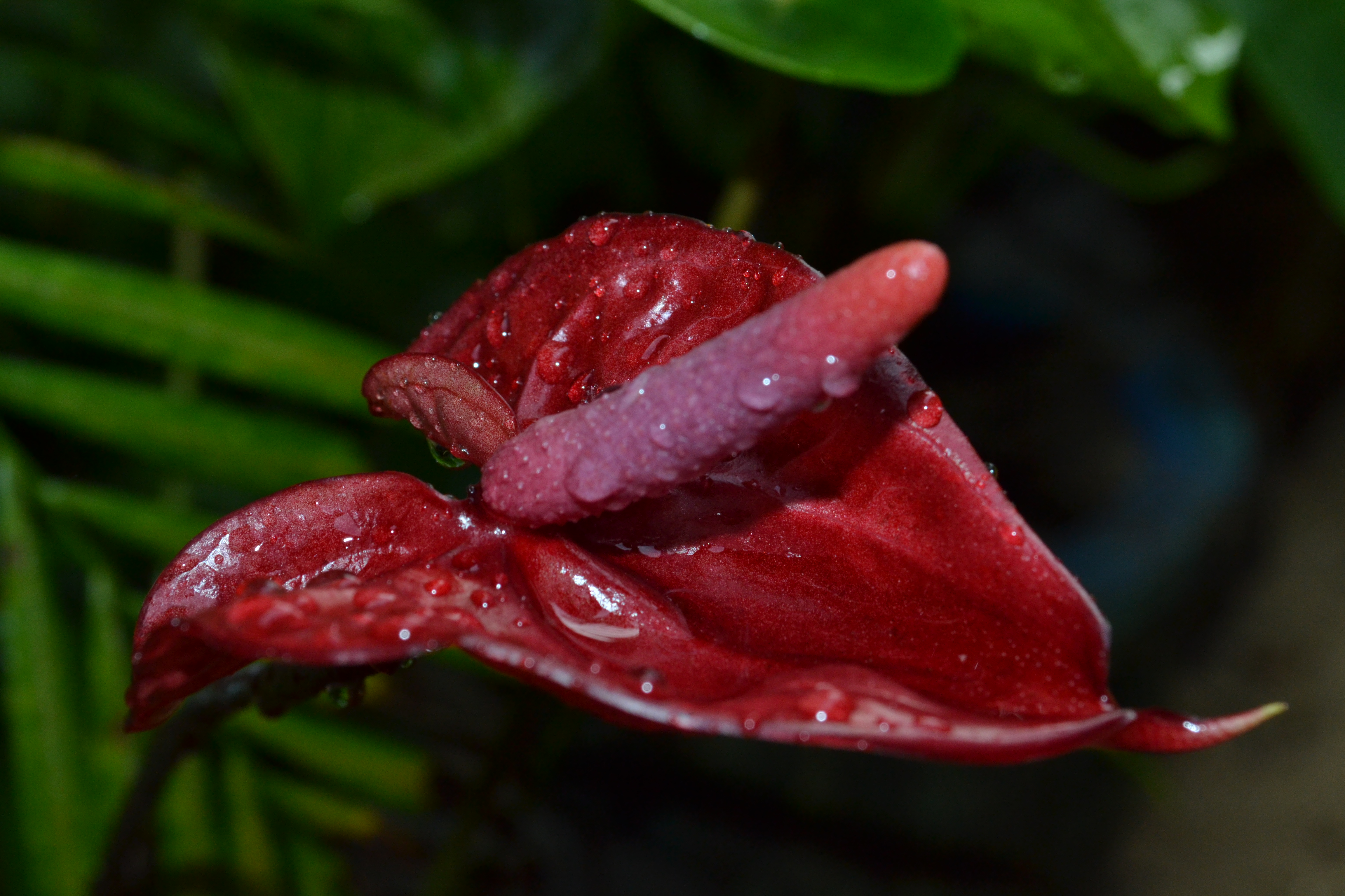 at my home